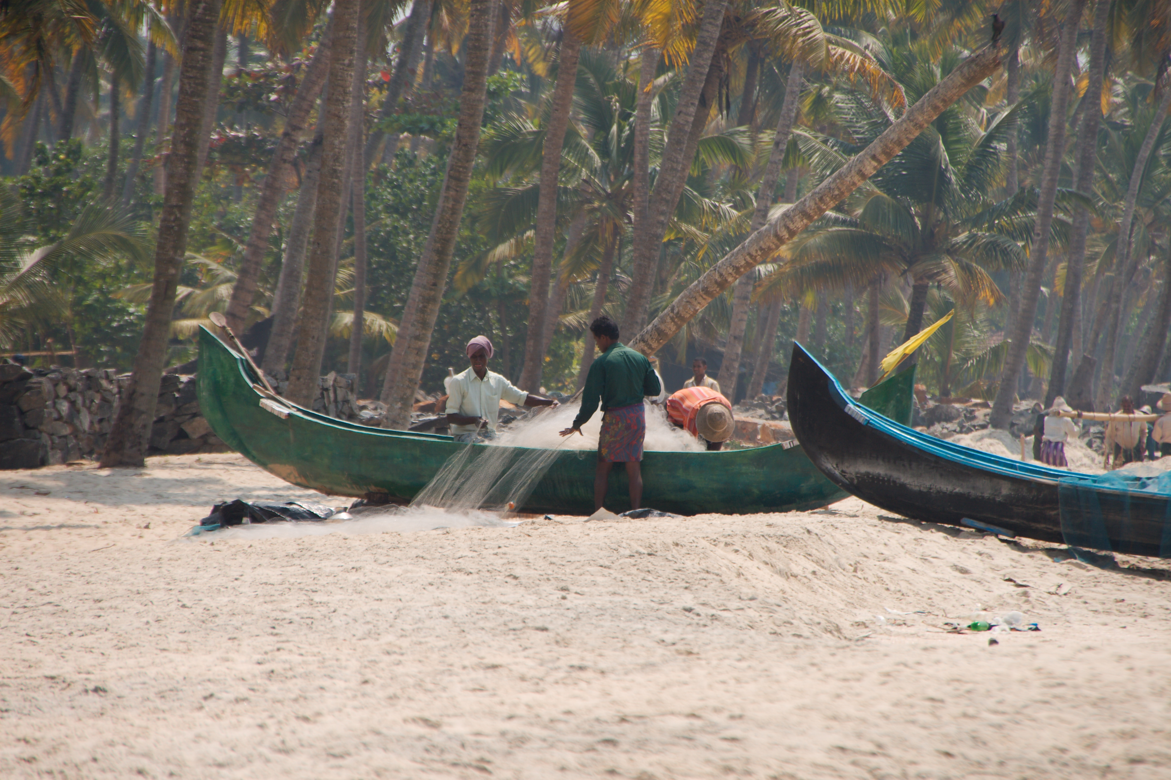 Fishermen doing some work while we were simply being useless.. Check out my travelblog at